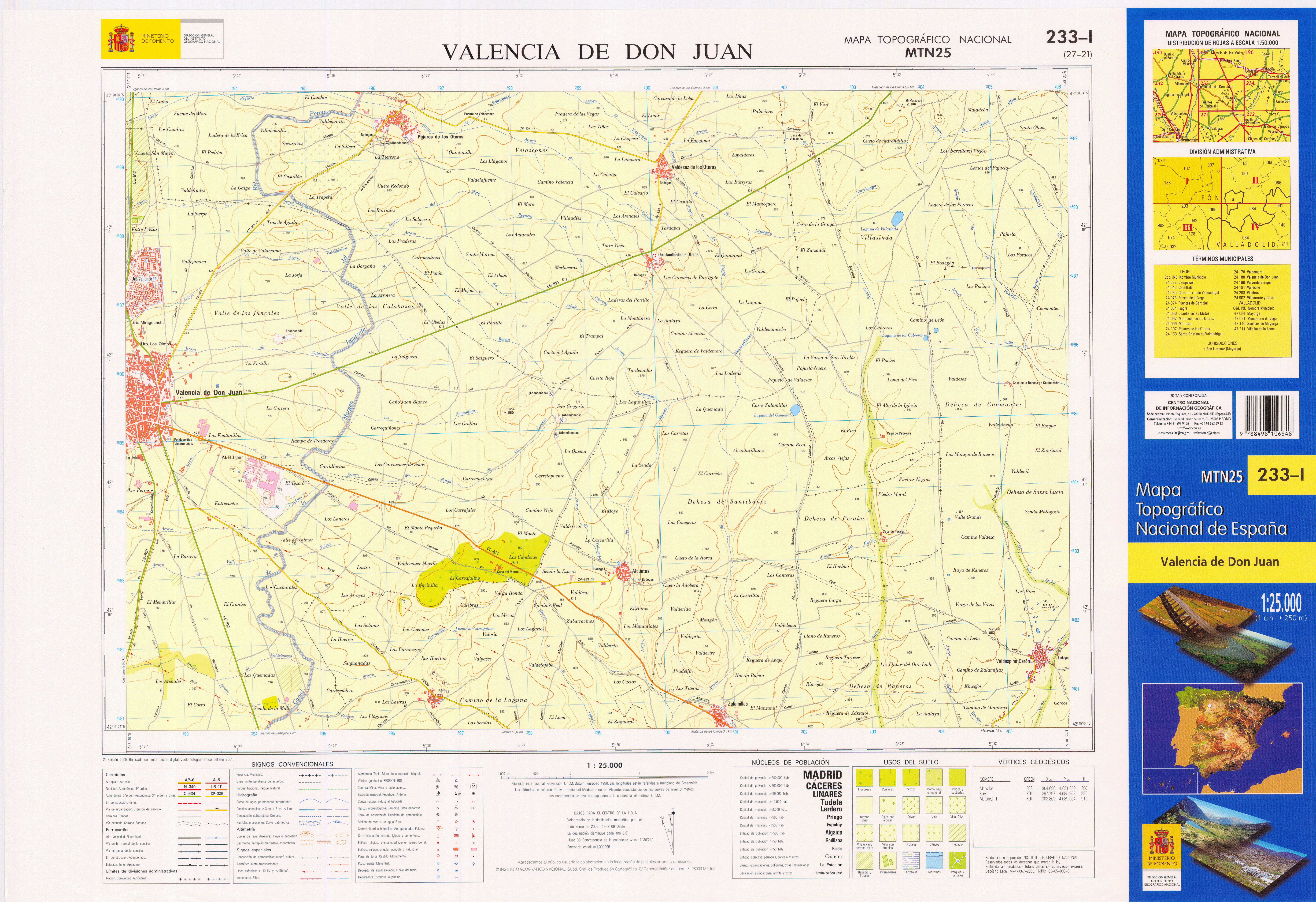 Fragment 0233c1 of the National Topographic Map of Spain in 2005 at a scale of 1:25000 printed and scanned with a resolution of 250 ppi. It shows Valencia de Don Juan.